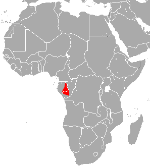 Forest Horseshoe Bat (Rhinolophus silvestris) range